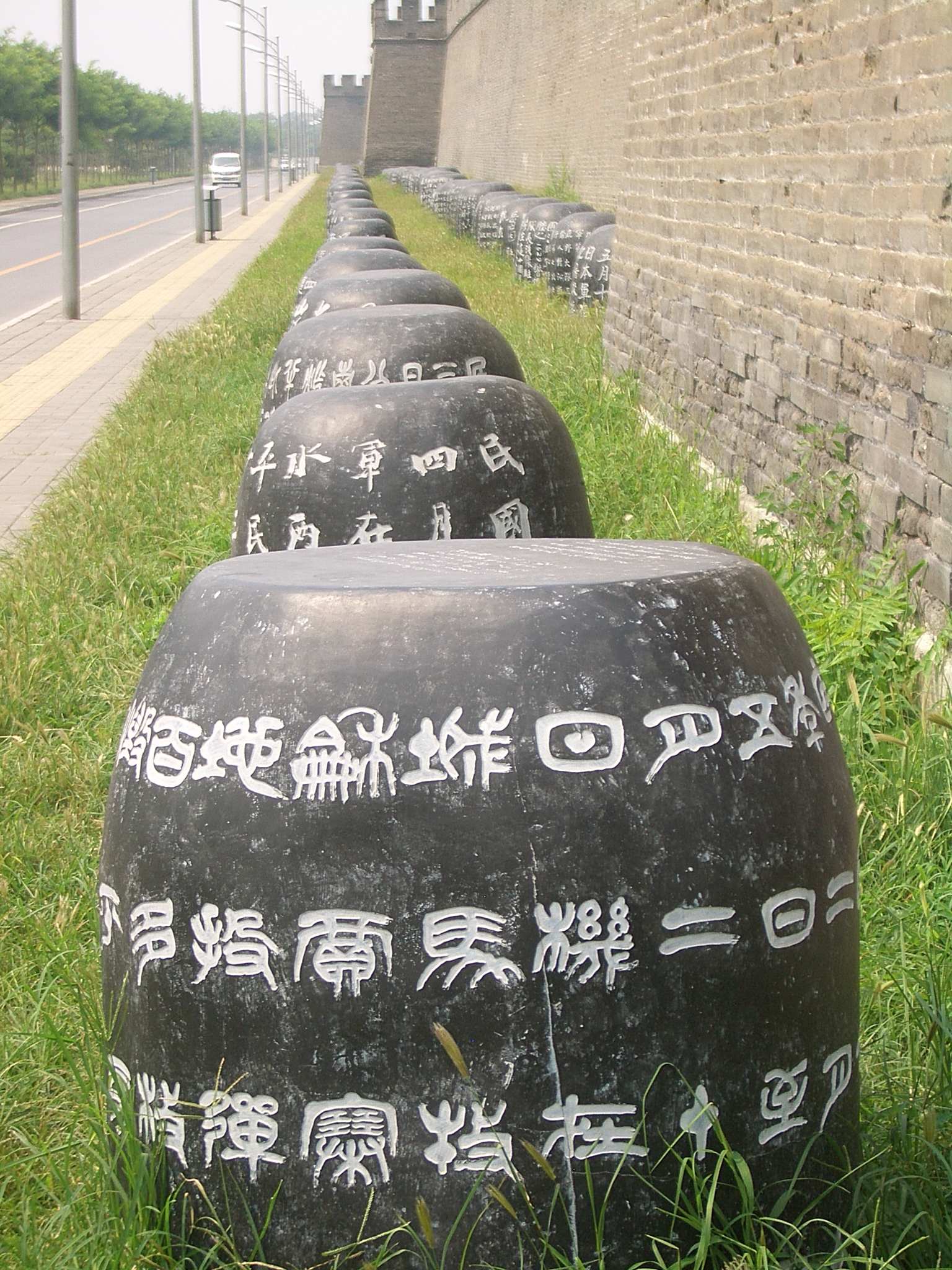 At the south wall of the Wanping Castle in Beijing. The spot damaged by the Japanese shelling during the Marko Polo Bridge (Lugouqiao) Incident in 1937 are marked with a memorial plaque. The text on the row of black stone drums along the walls tells the story of the War againt Japan that followed the incident.